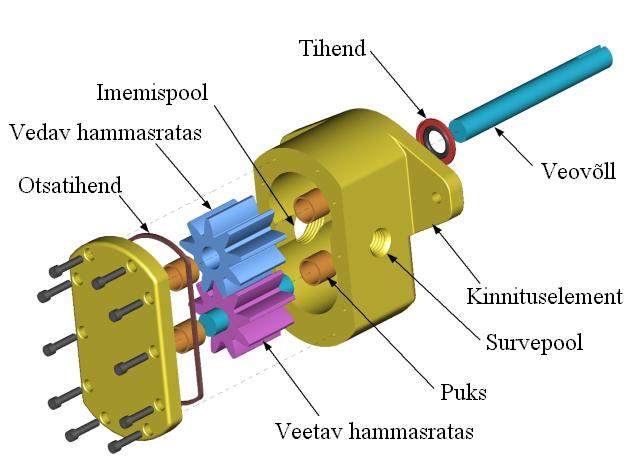 Estonian version of image: Gear pump exploded.png Eestikeelne versioon pildist: Gear_pump_exploded.png